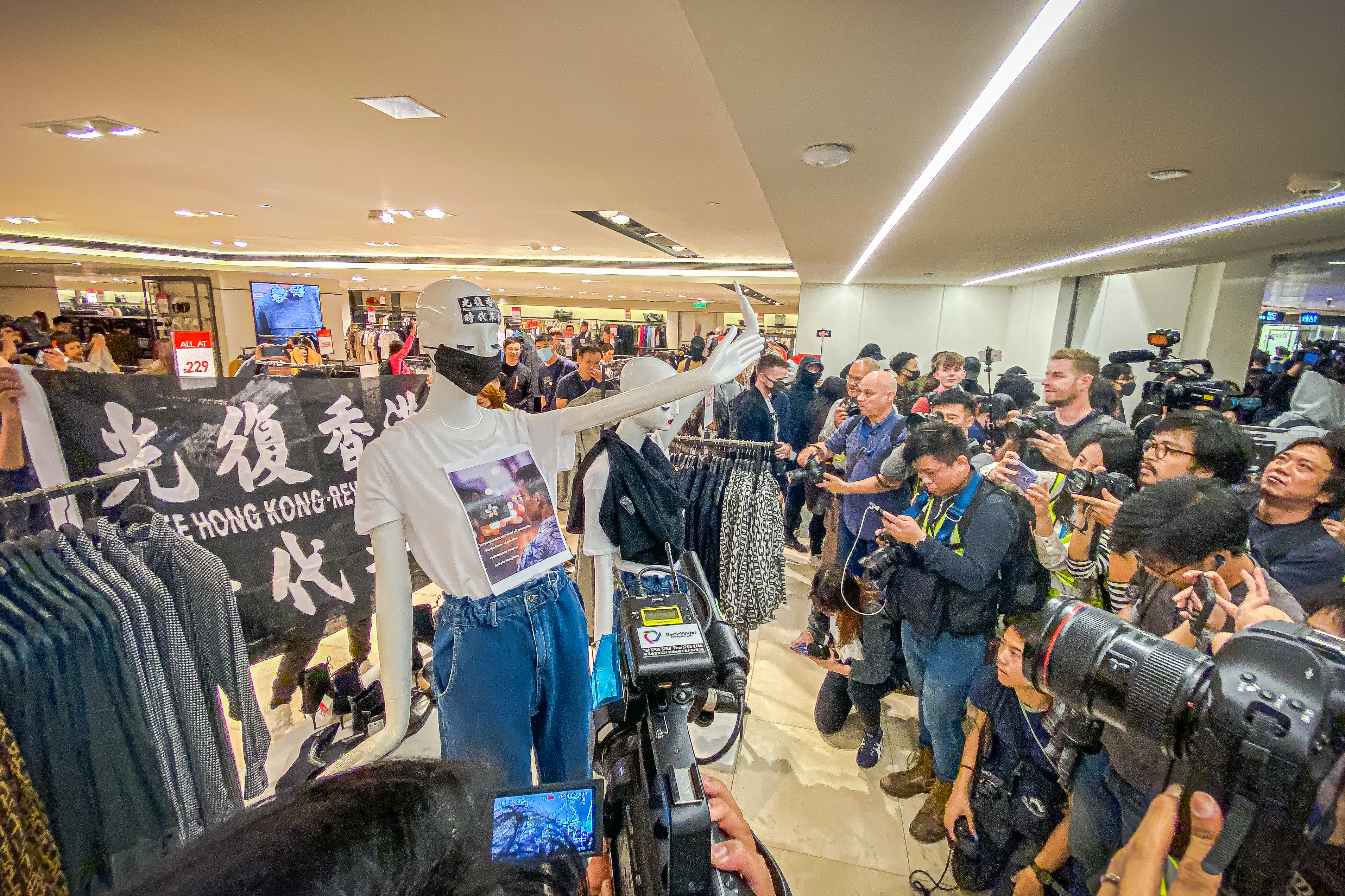 Zara’s model - Five Demands Not One Less